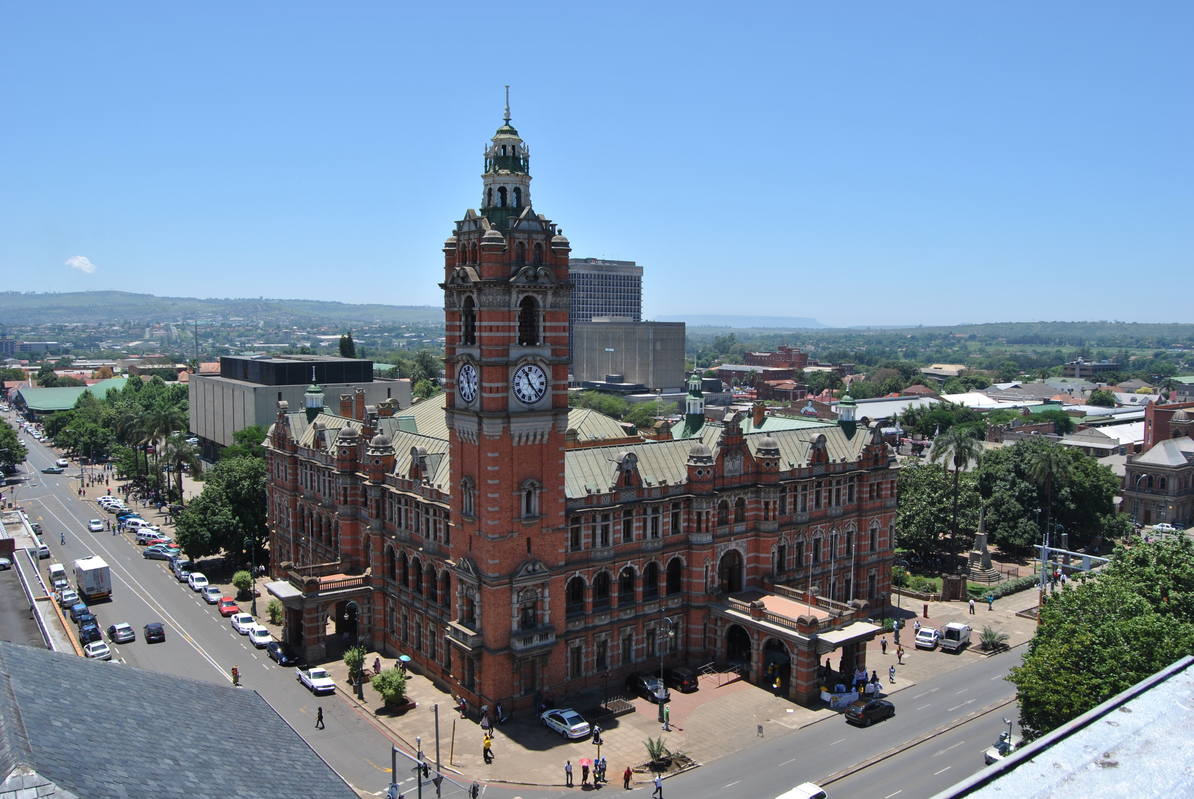 City Hall, corner of Chief Albert Luthuli Street and Church Street, Pietermaritzburg. Built in 1893 and having been damaged by fire in 1895, was rebuilt in 1901.